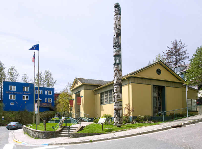 The Juneau Alaska Memorial Library is listed on the National Register of Historic Places as listing #006000463. The building now houses the the Juneau City Museum.